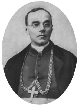 Marian Józef Ryx (1853-1930)